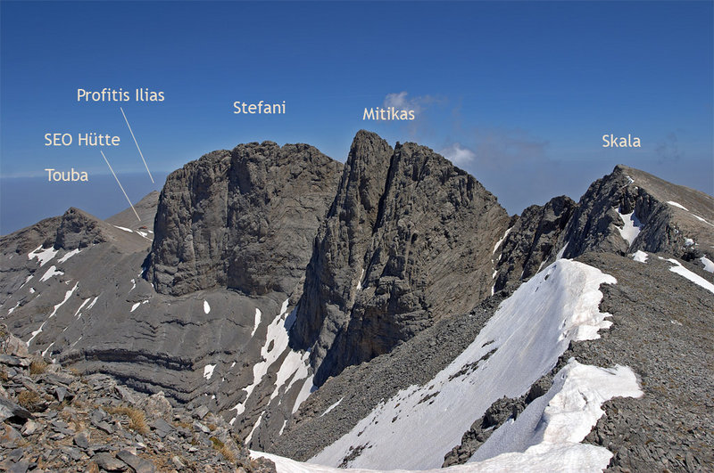 Mount Olympus, Greece